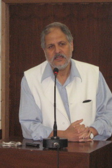 Najeeb Jung Vice Chancellor Jamia Millia Islamia